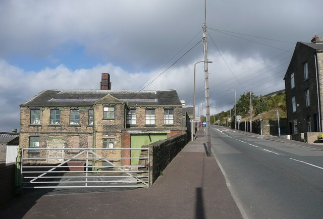 Boothtown Road A647, Halifax The A647 climbs relentlessly from 150m to 320m in about 3km. The factory was part of the Victoria soap works.